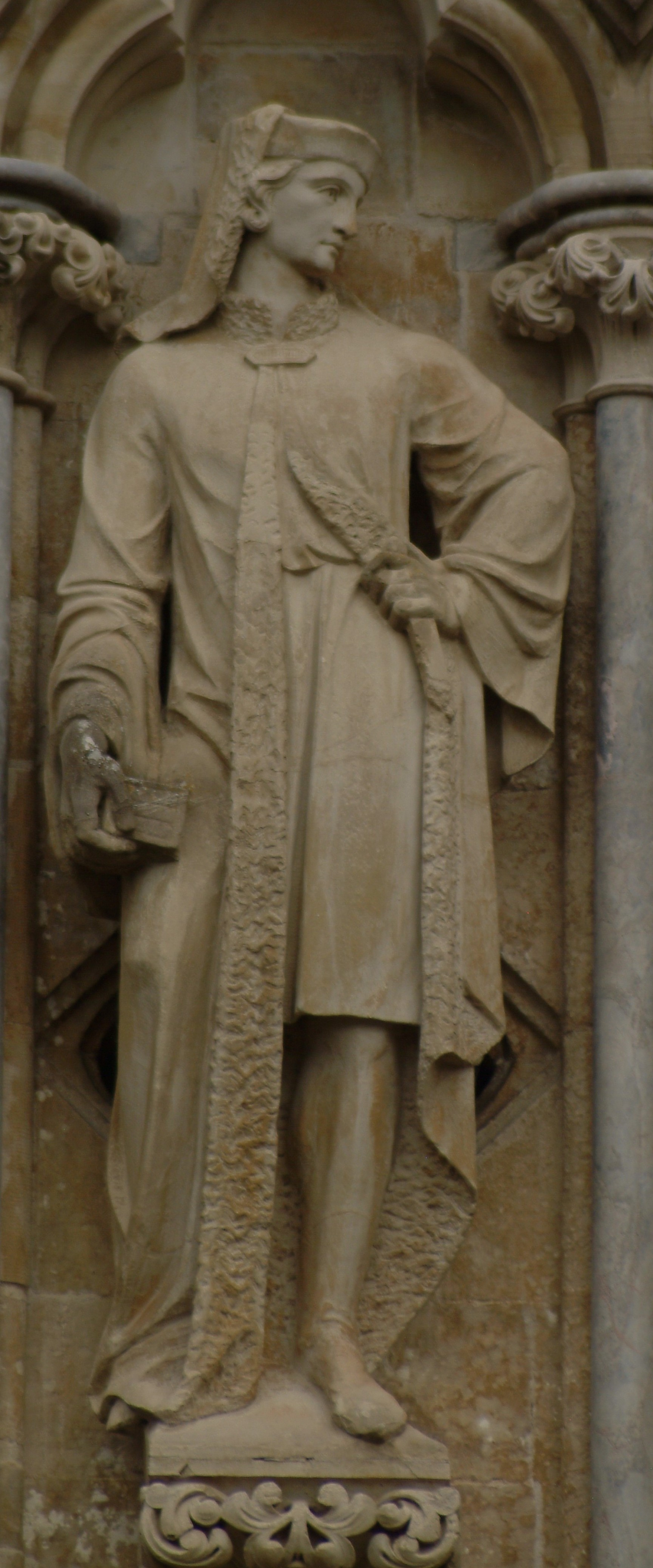 Statue of St Cosmas on the West Front of Salisbury Cathedral, UK.